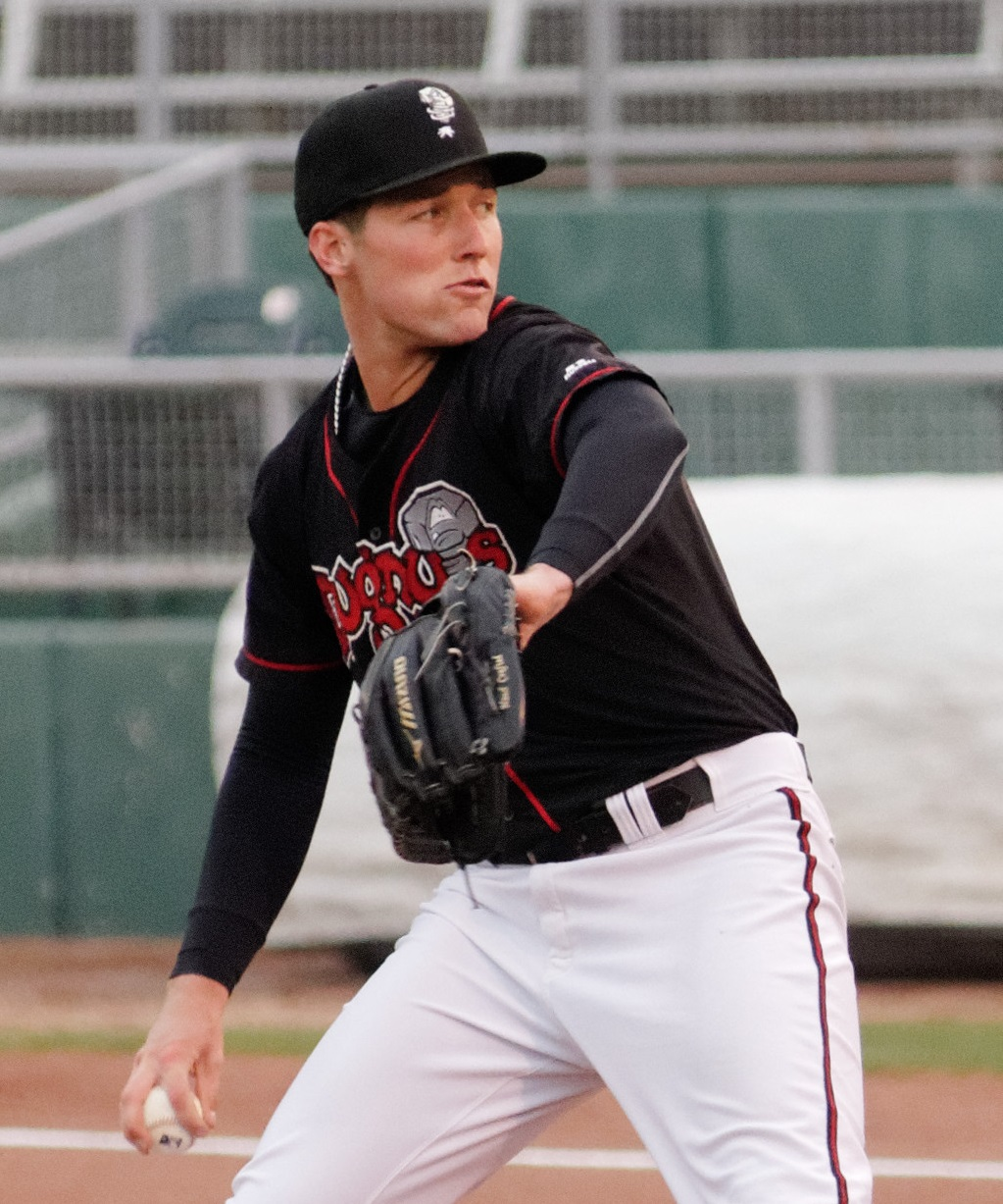 Sean Reid-Foley pitching for the Lansing Lugnuts on April 22, 2016